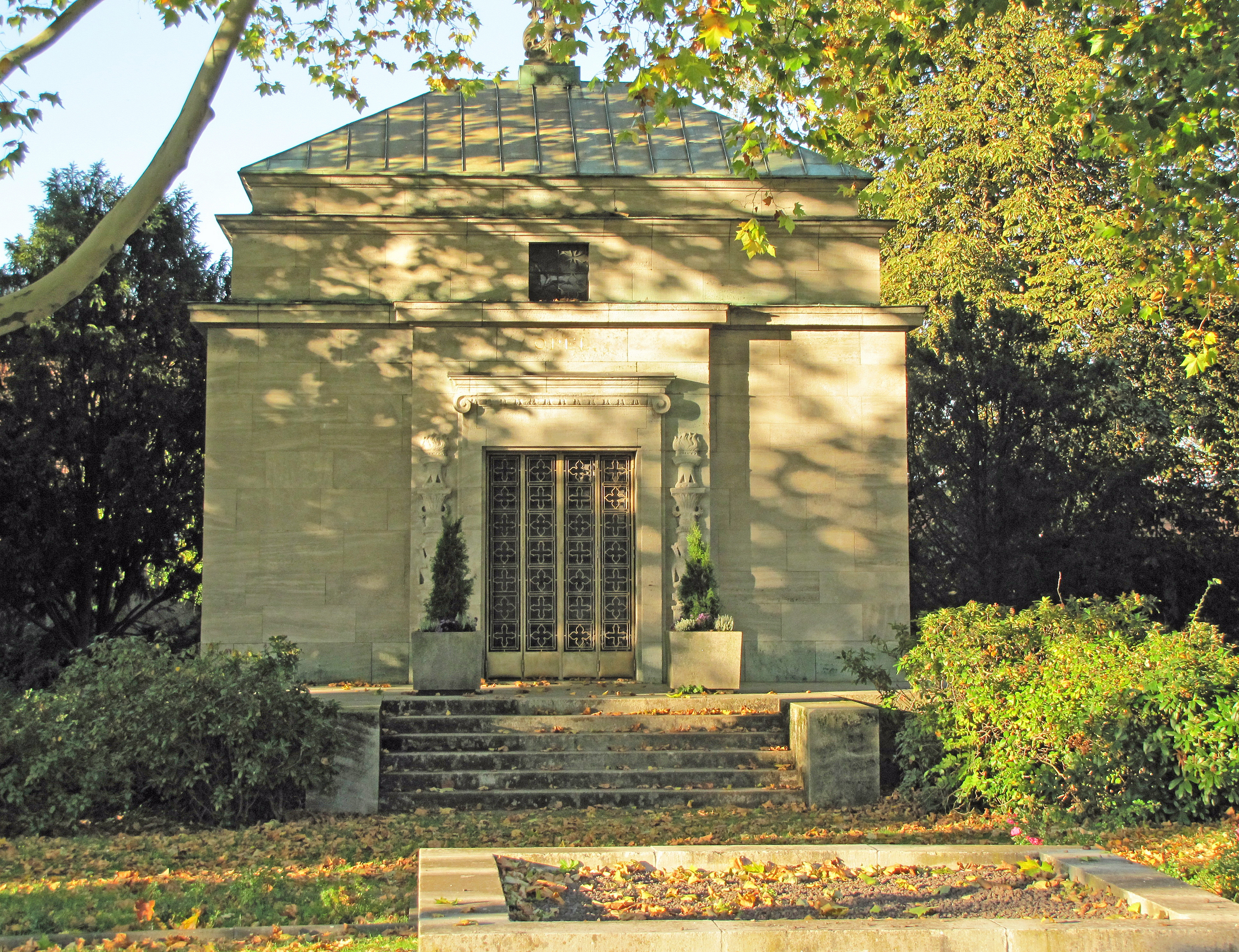 Mausoleum of Opel family in Ruesselsheim, Hesse, Germany.